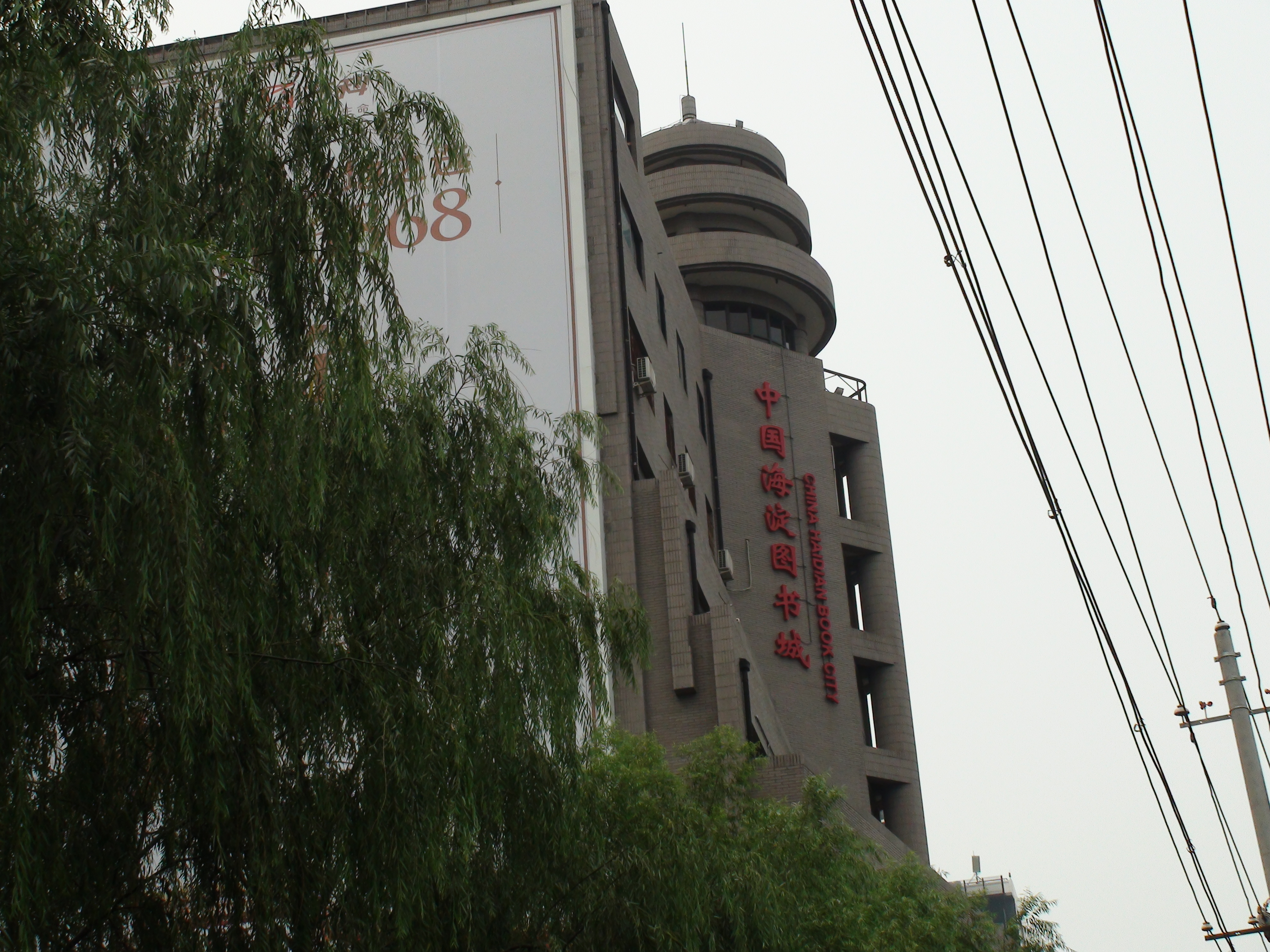 Book Center of Haidian,Beijing